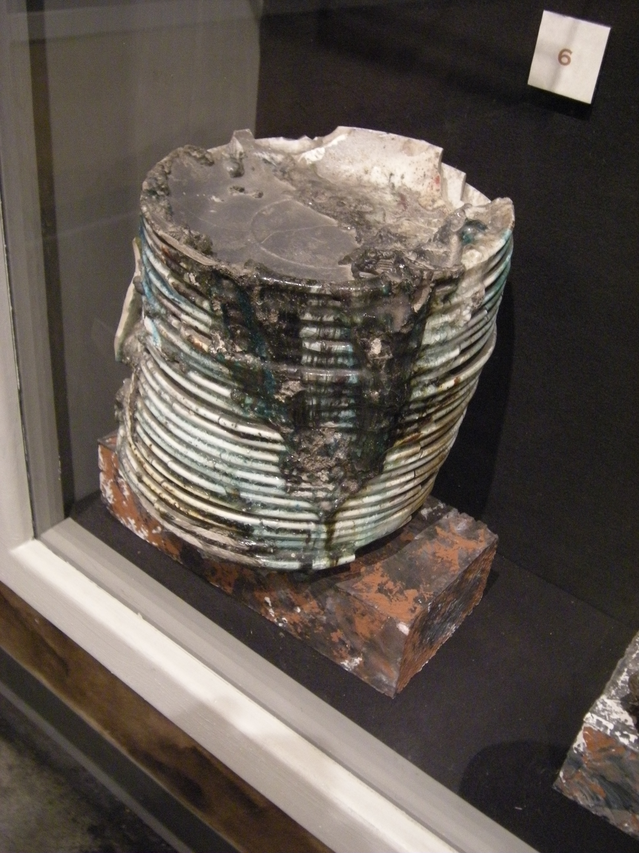 Plates damaged in the Great Seattle Fire of 1889.